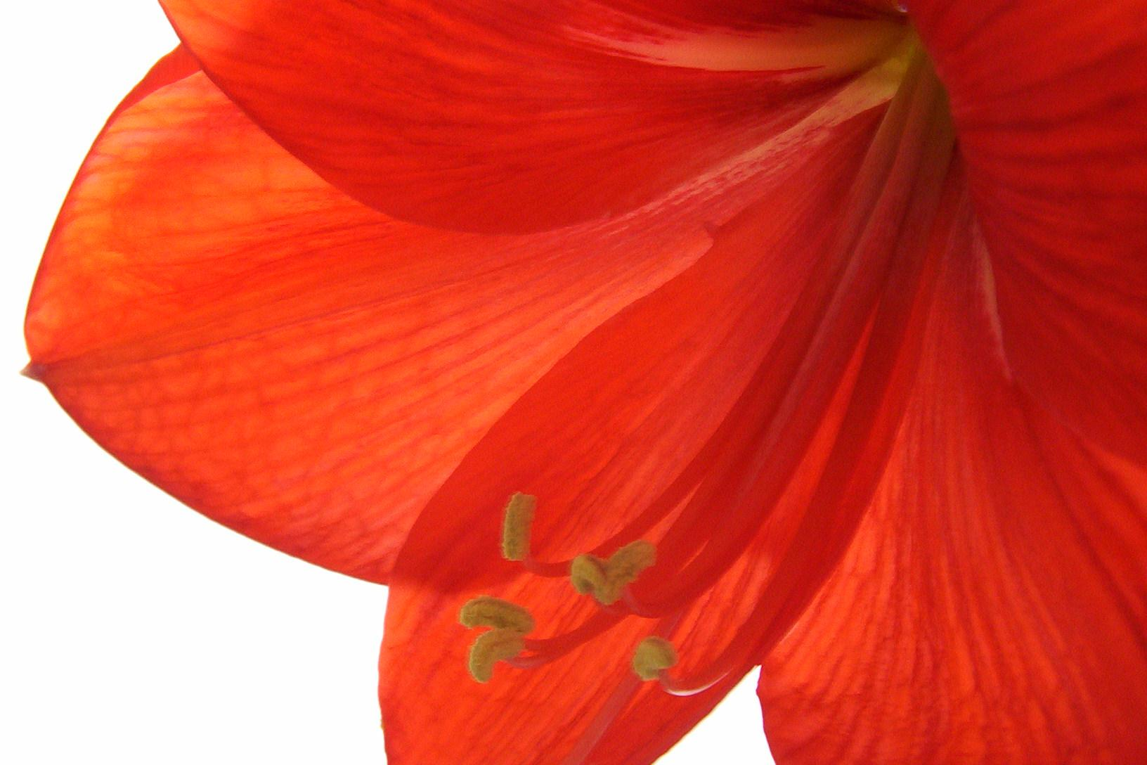 Photo of the flower of a species of Hippeastrum.